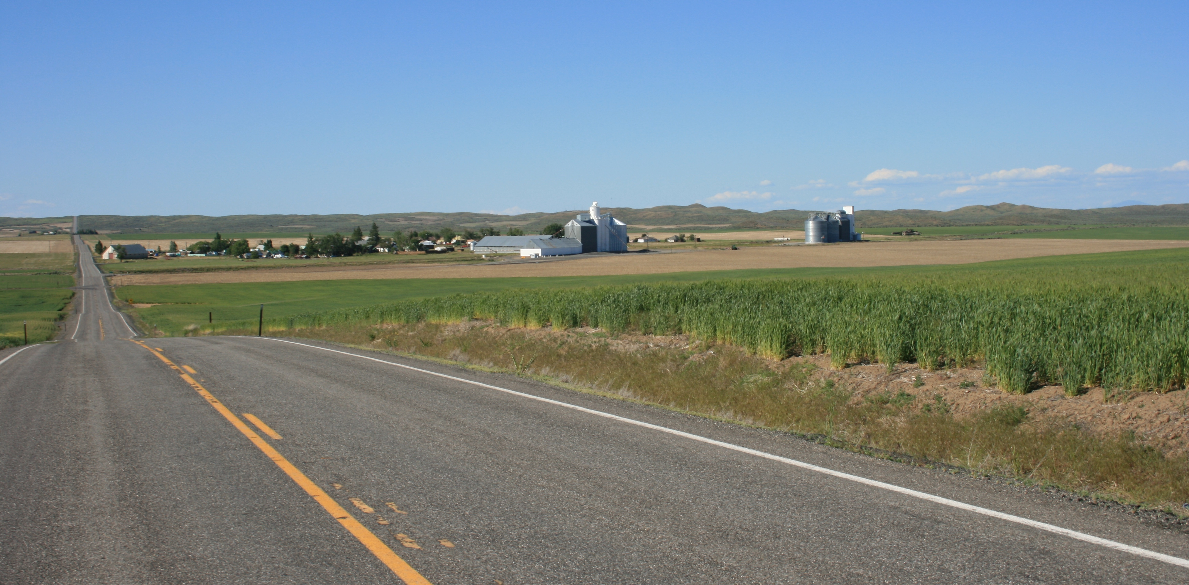 Withrow_Washington `Terminal_Morrain_Behind_Town_of_Withrow_IMG_1892.jpg